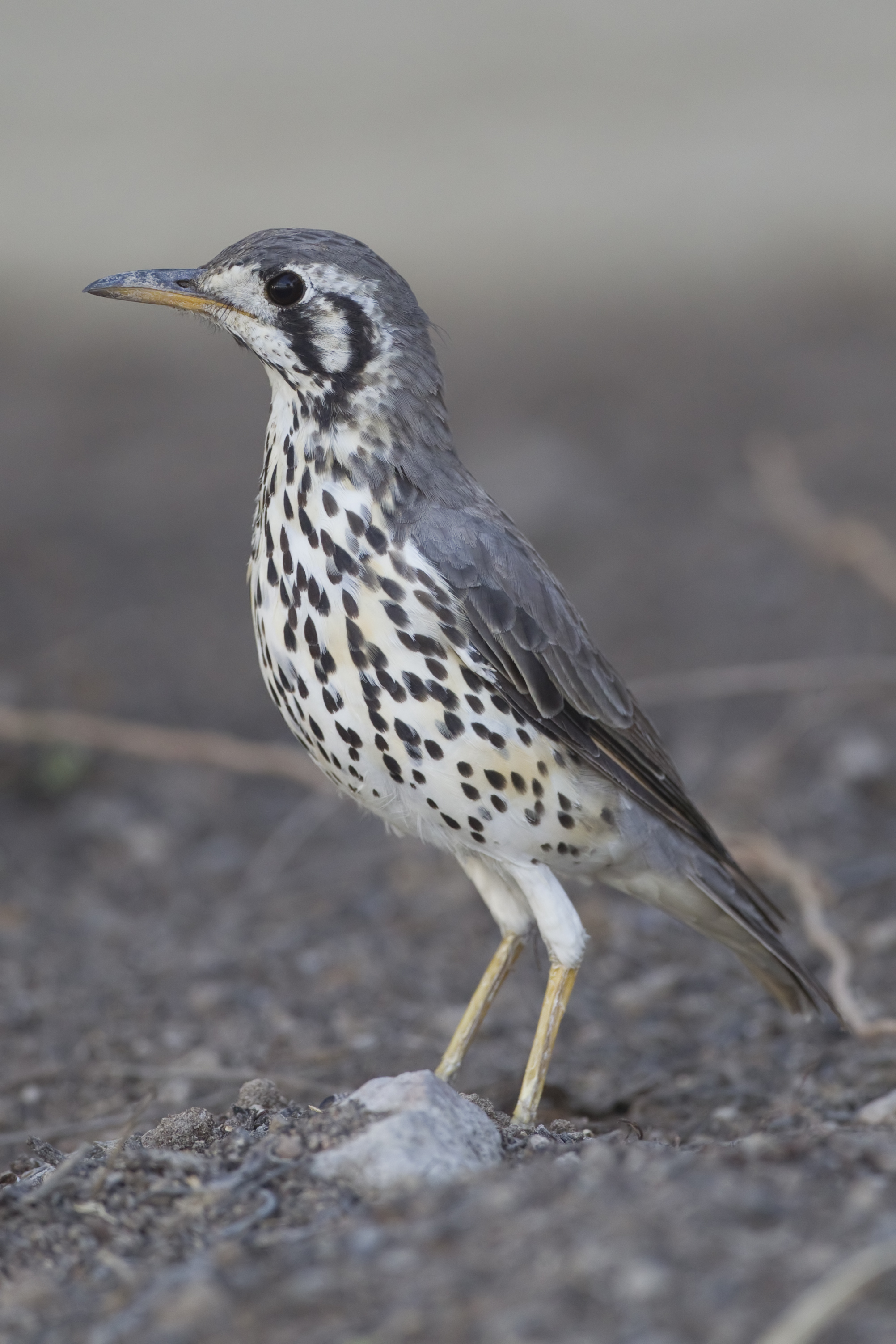 Groundscraper Thrush in Etosha National Park